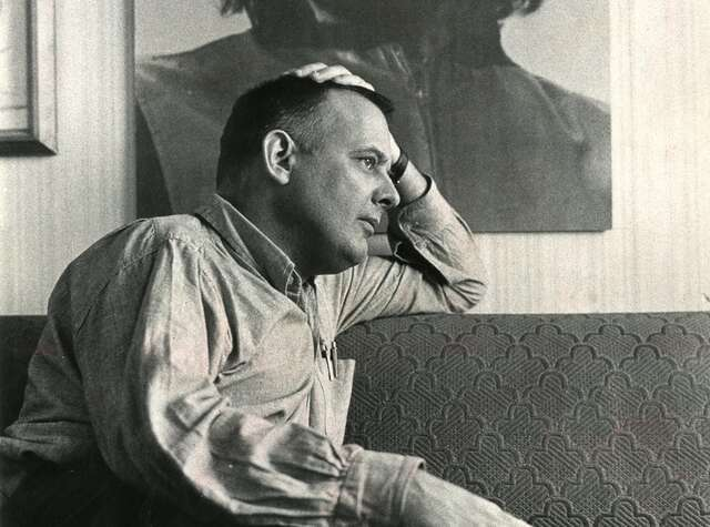 Swedish communist (KPML(r)) and writer Sven Wernström (1925-2018)